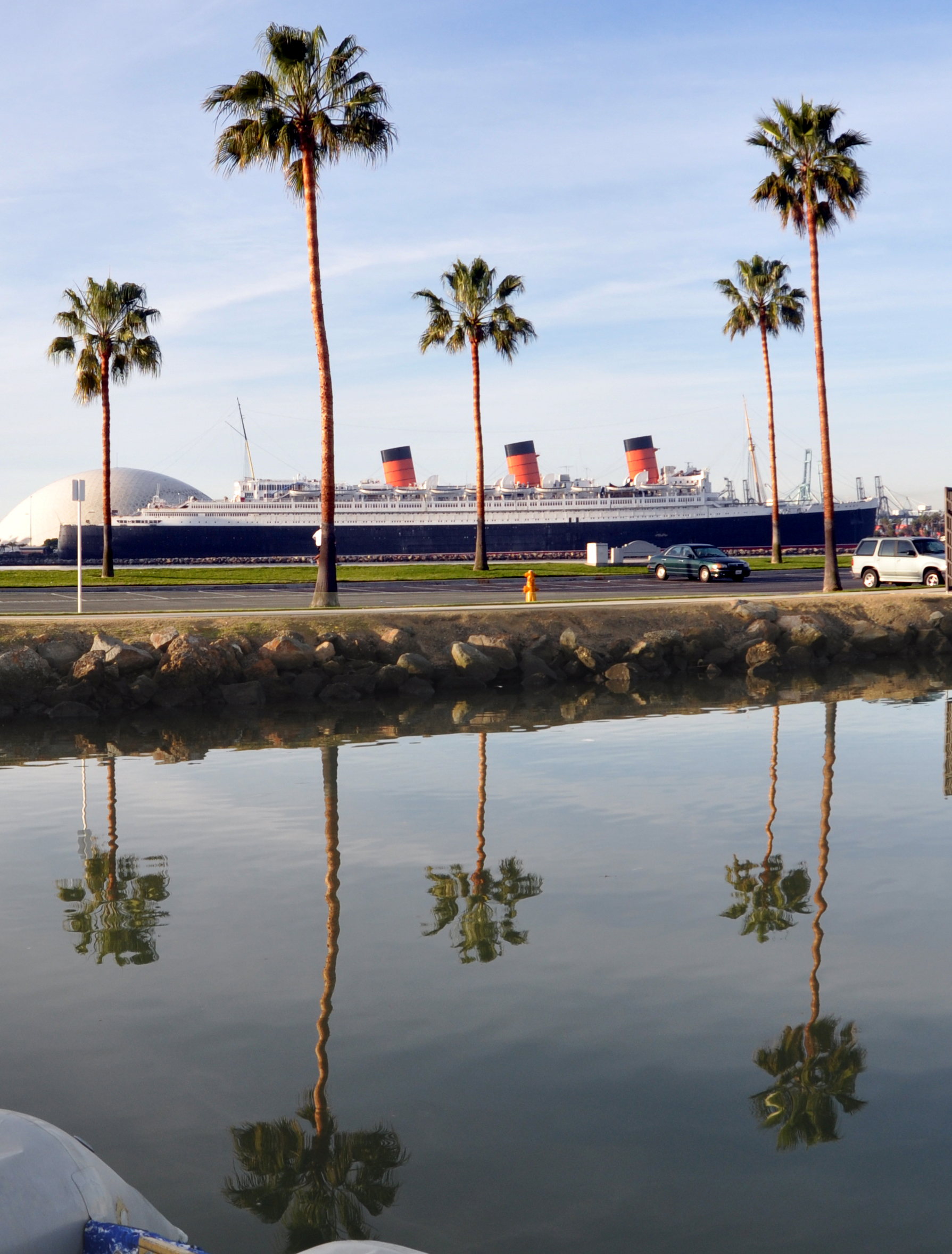 HMS Queen Mary — at at Long Beach, photo D Ramey Logan.JPG